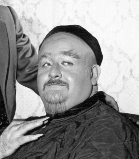 Photo of Victor Buono as a Chinese merchant from the premiere of the television series The Wild, Wild West.